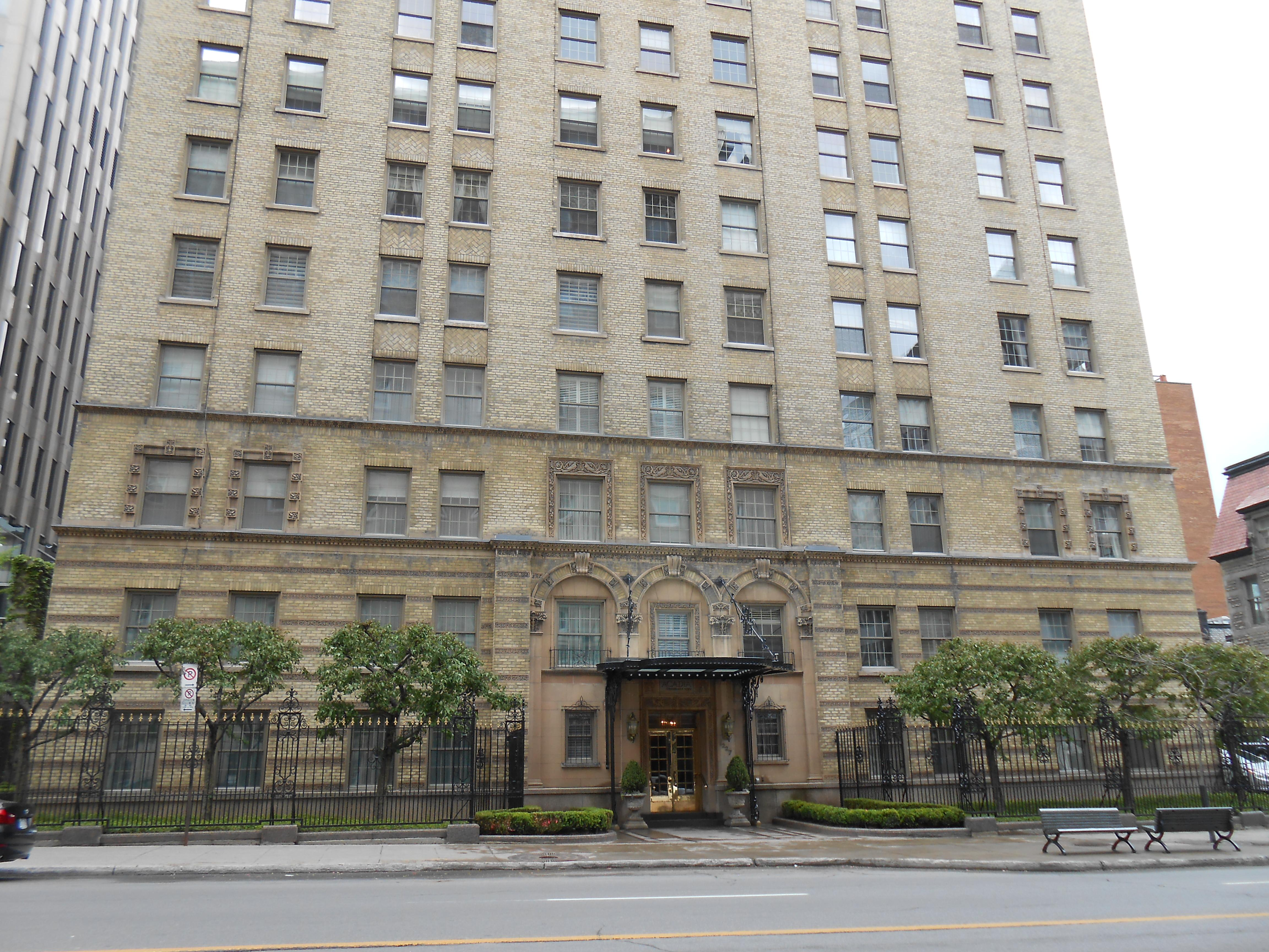 Acadia Apartments, 1227 Sherbrooke Street West, Montreal, Quebec, Canada